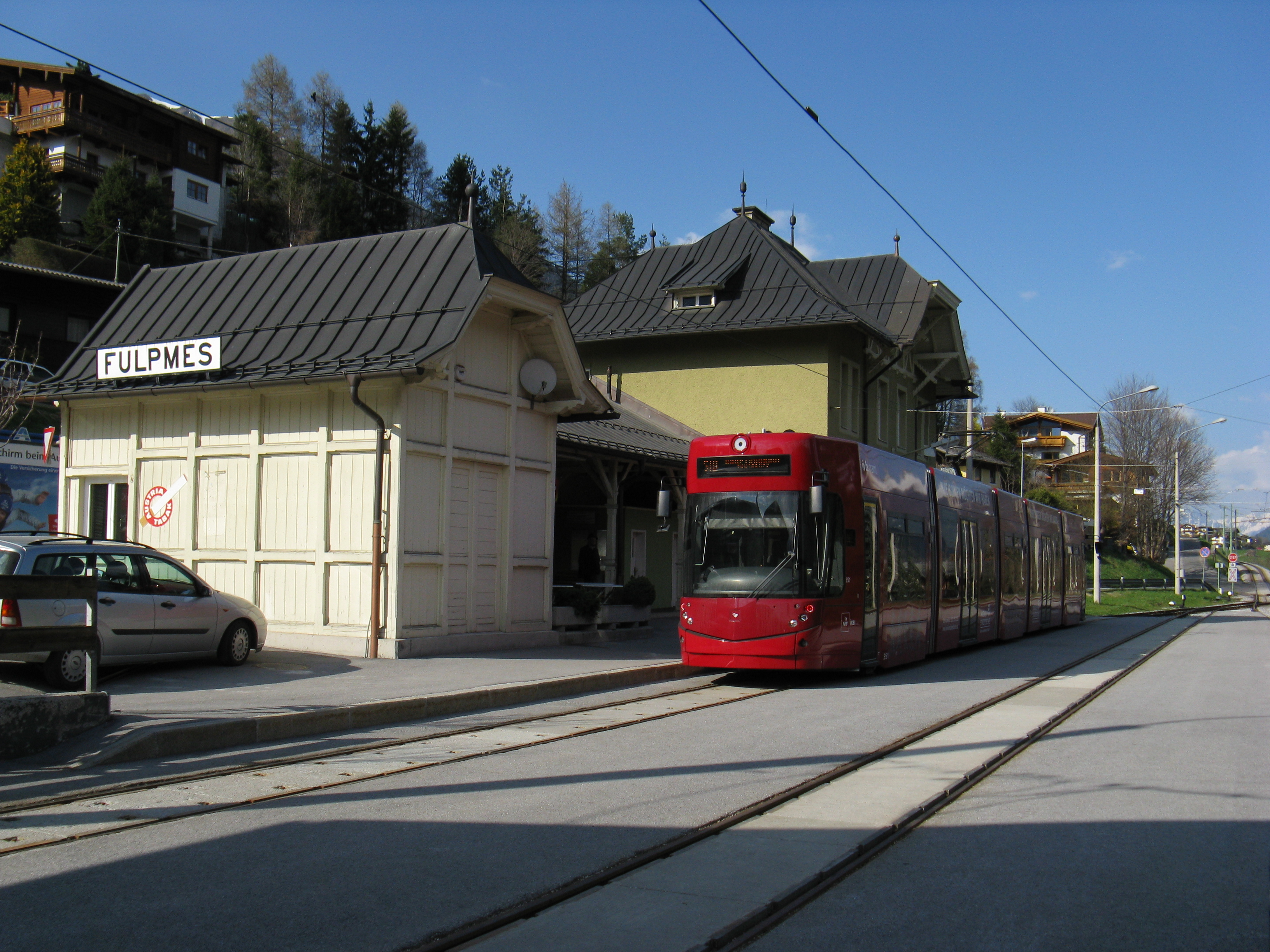 Stubaitalbahn, car 351 (Bombardier Flexity Outlook) at terminal station Fulpmes.